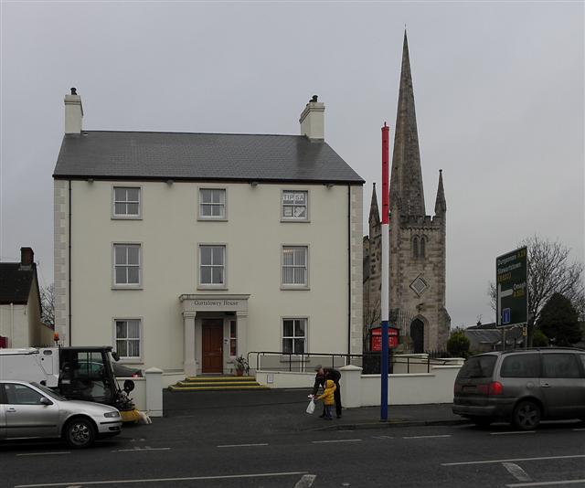 Gortalowry House, Cookstown Located at Church Street, it has kept its external appearance. There are several small businesses occupying the premises